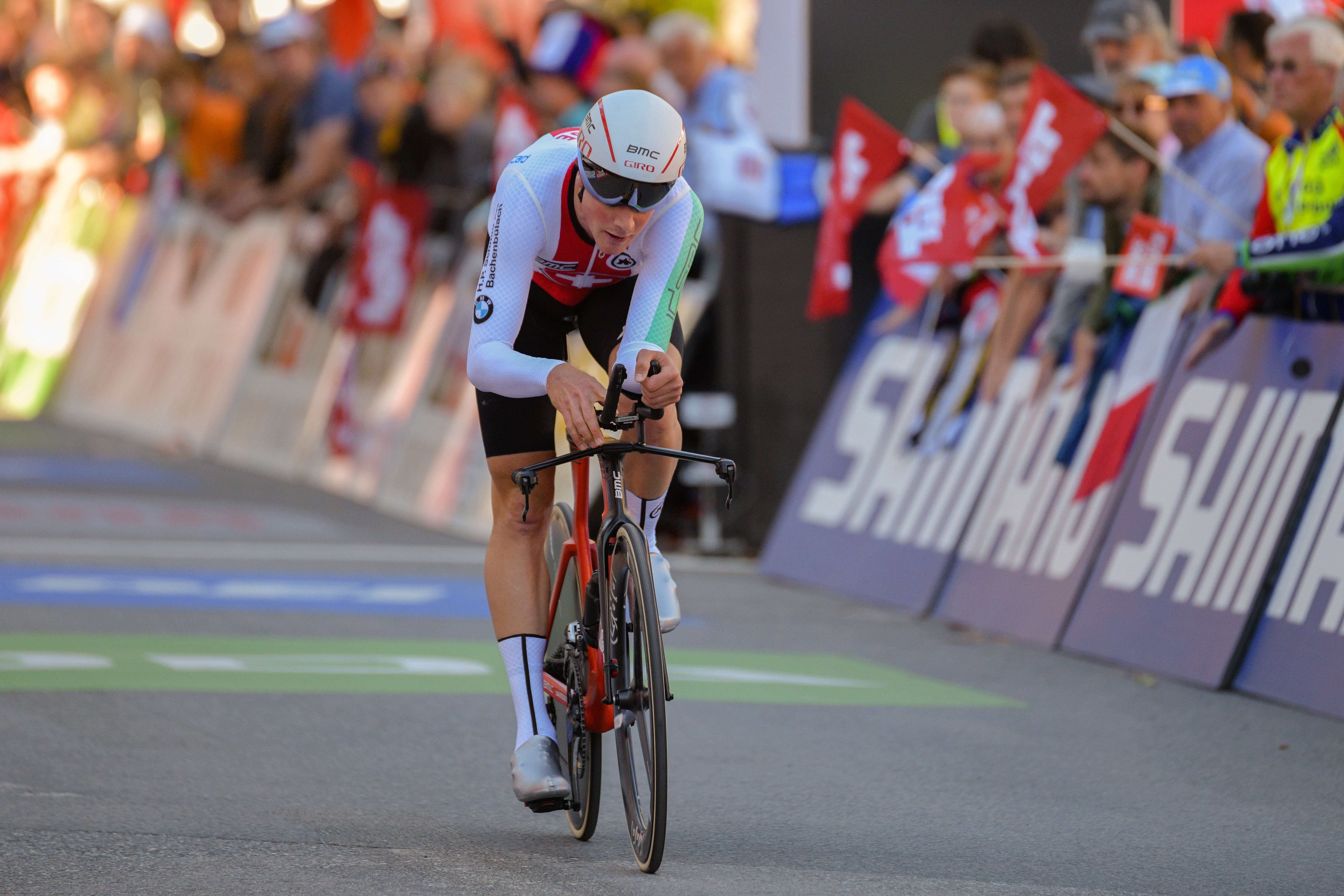 2018 UCI Road World Championships Innsbruck/Tirol Men's Individual Time Trial. Picture shows: Stefan Küng of Switzerland